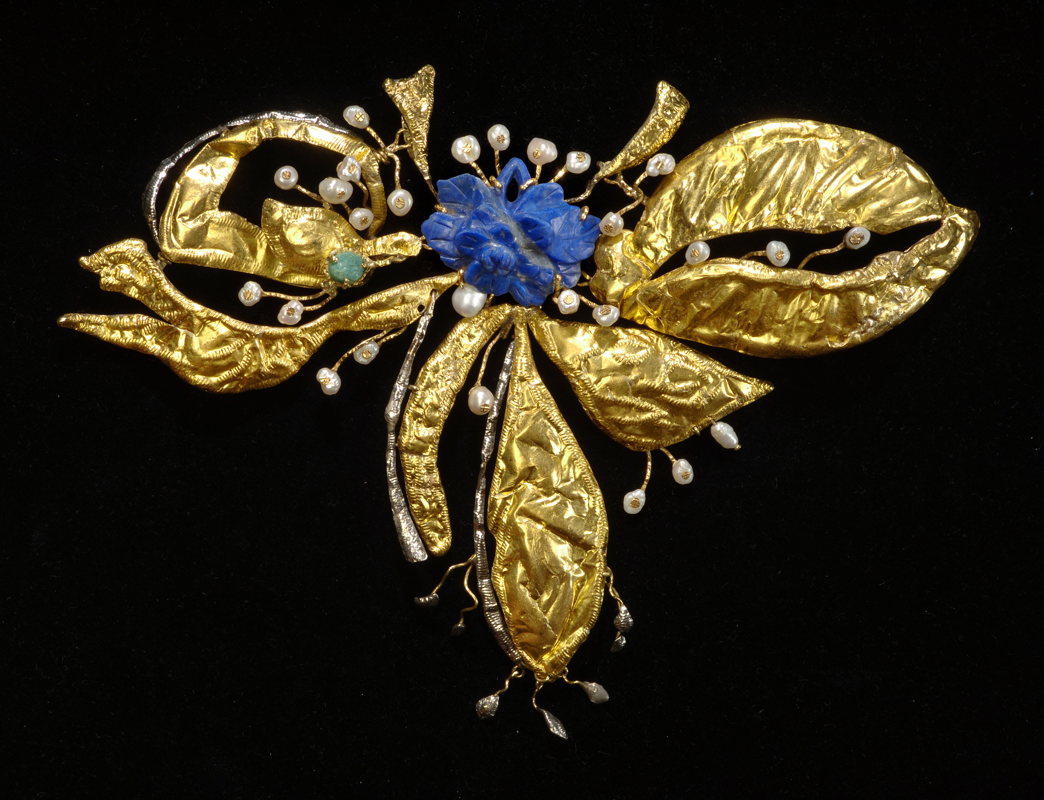 Libellule 1993